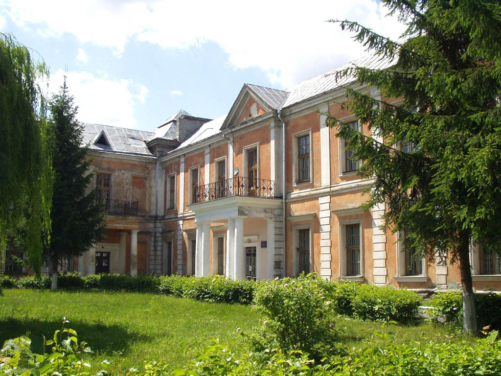 The Vyshnivets Palace in Vyshnivets, Ukraine.